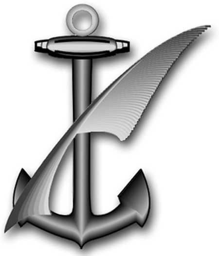 US Navy Navy Counselor (NC). An anchor crossed with a quill.